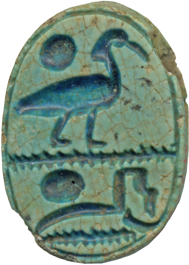 This steatite scarab is glazed and inscribed on the bottom in sunk relief technique with the throne name of Siptah (1194/1193-1186/1185 BC). The scarab has a high back with a simple carved design. The workmanship is good. This scarab functioned as an individualized amulet and was originally mounted or threaded. The amulet should secure the presence of this king, and guarantee for a private owner his royal patronage. The form of the "n"-sign is typical for the Ramesside Period and in its elongated version very popular on scarabs of the 2nd half of the 19th Dynasty.